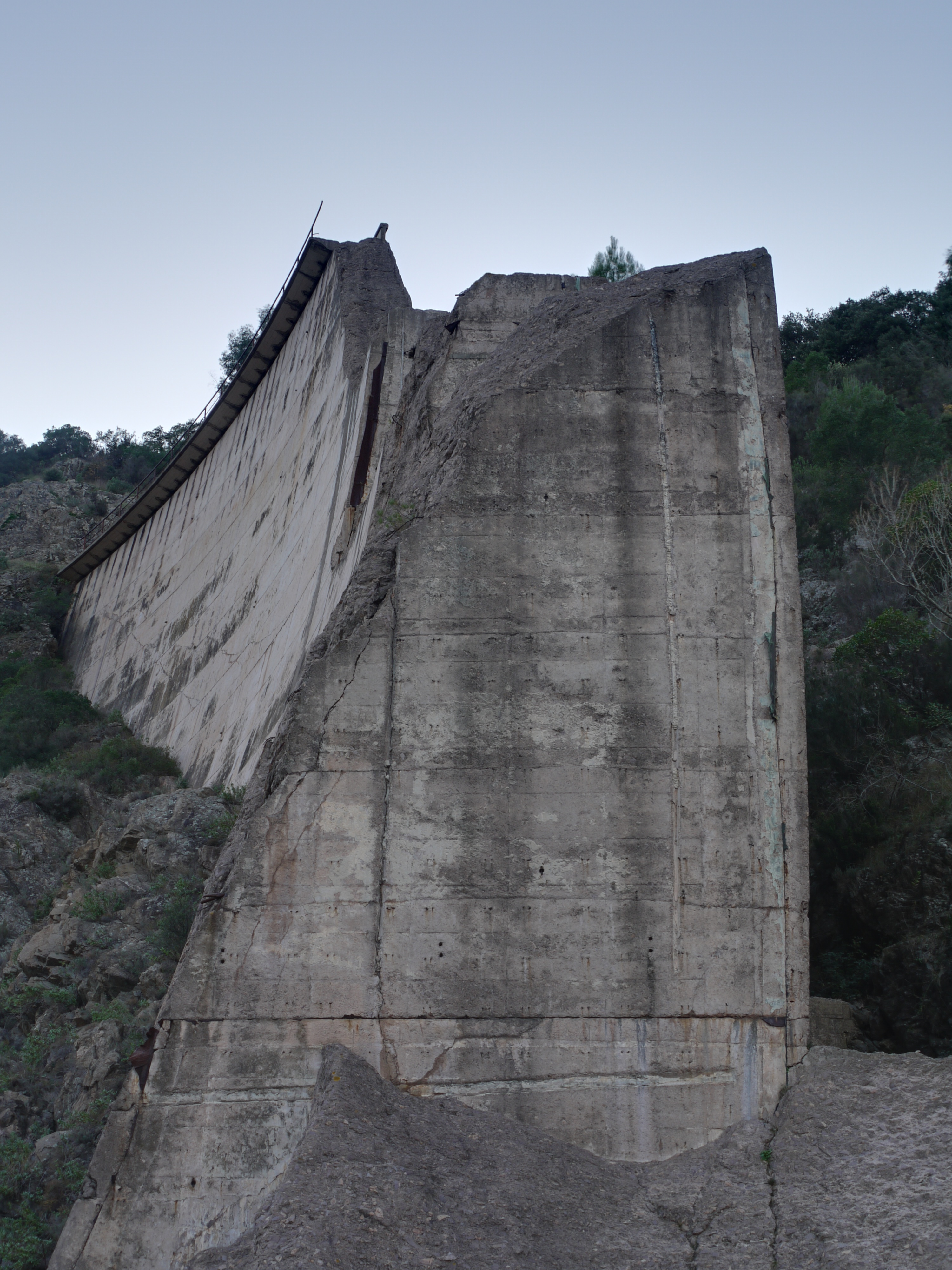 The remains of the Malpasset Dam in France which crumbled on the 2nd of december 1959..